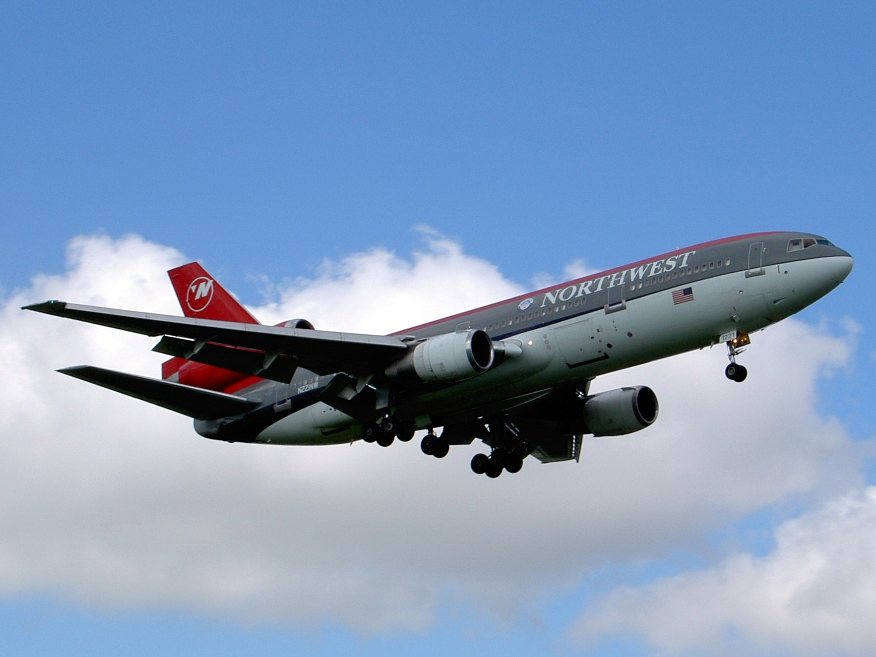 Photographed at Amsterdam Airport, (Schiphol).